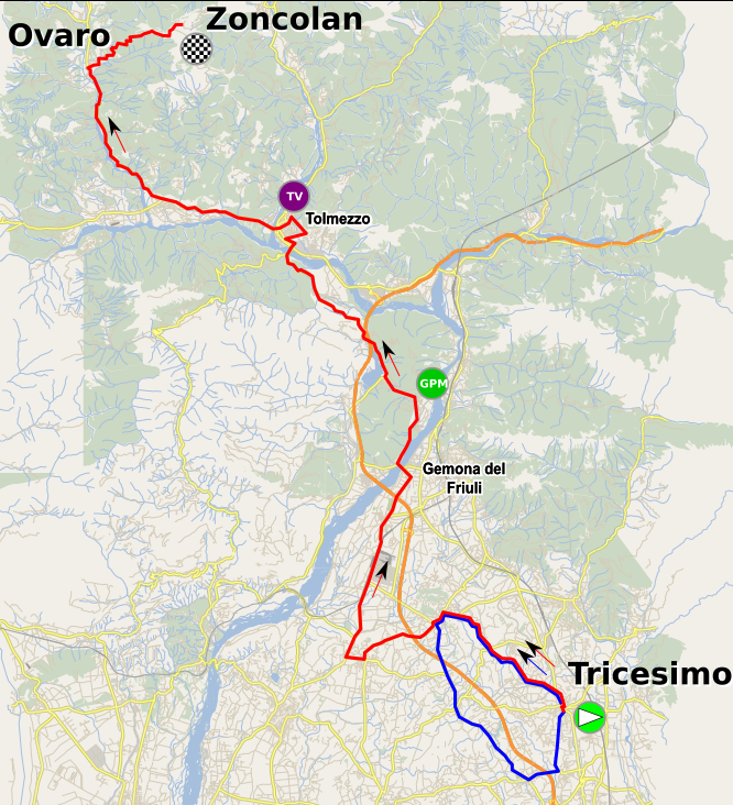 Map of stage 9 of Giro donne 2018.